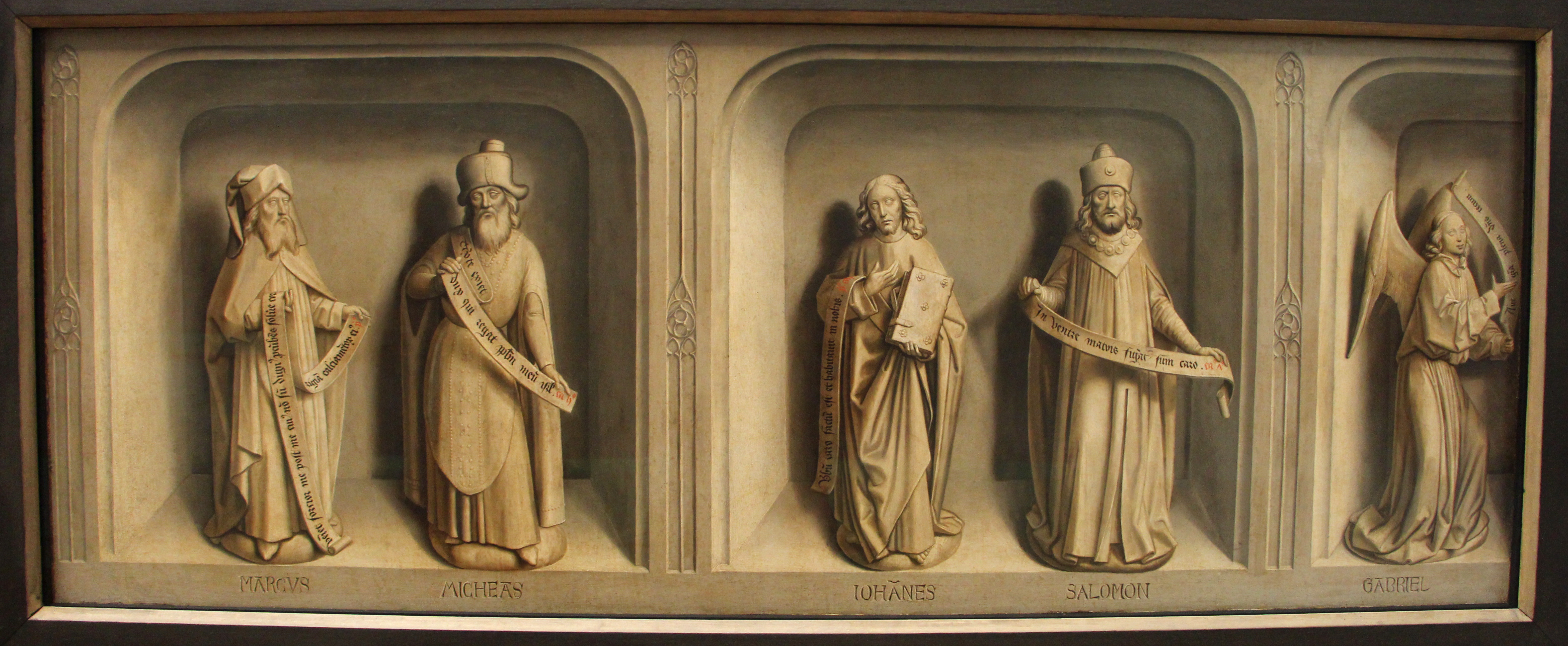 French paintings in the Gemäldegalerie, Berlin